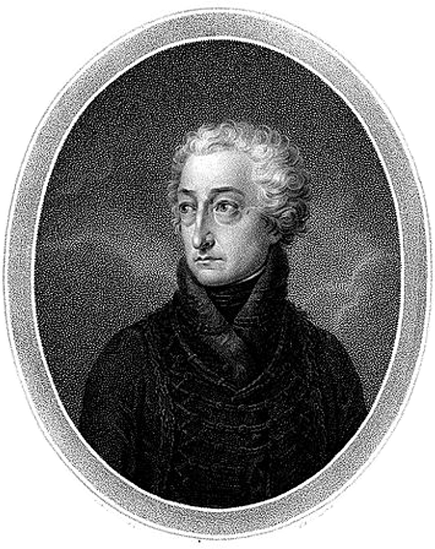 The agronomist György Festetics